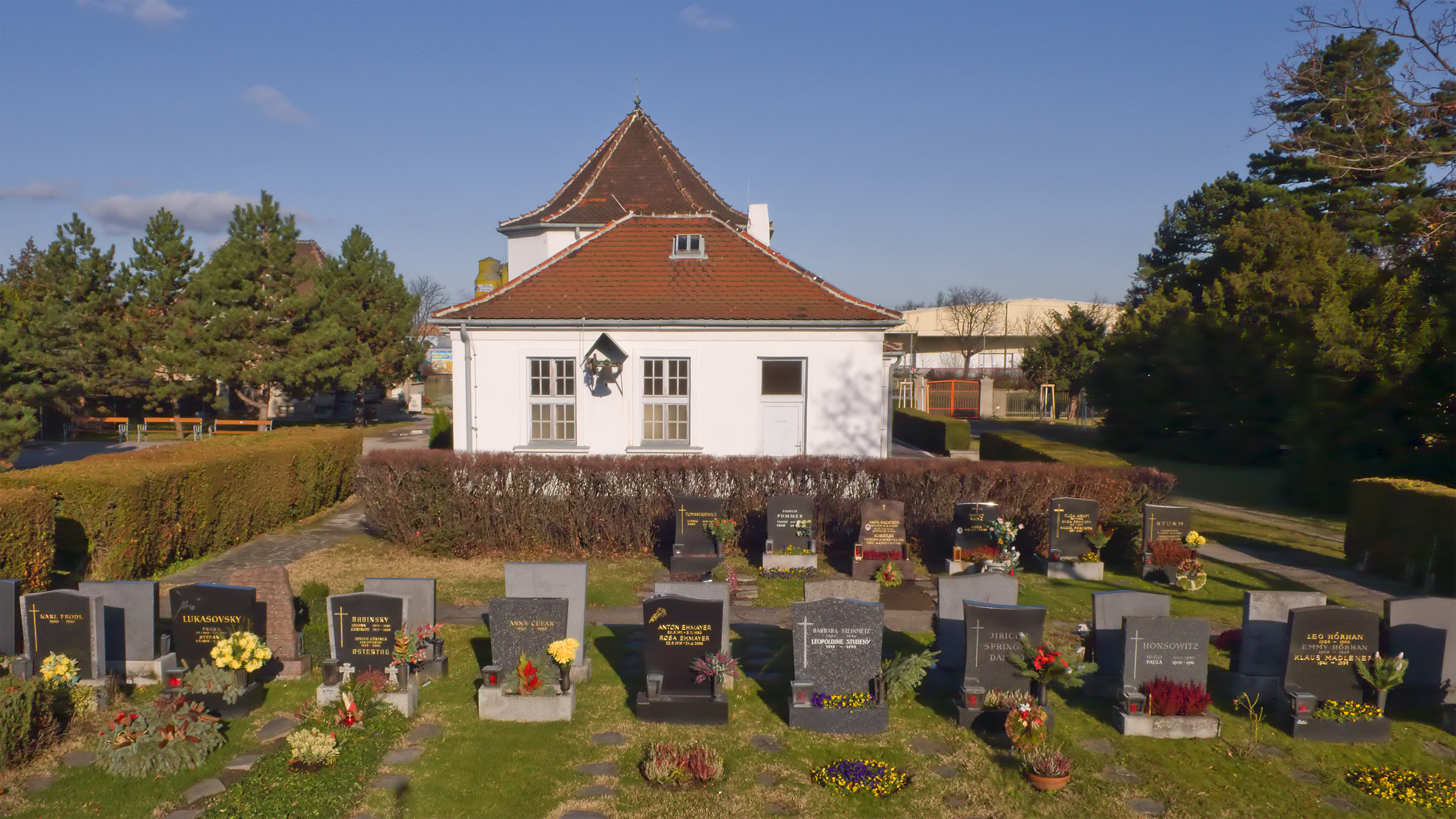 Vienna Liesing: Friedhof Liesing